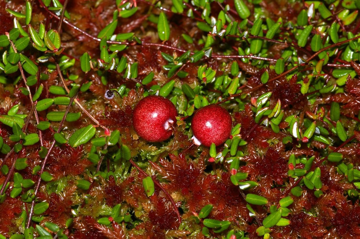 Fruits and leaves of Vaccinium oxycoccos in a bog. Moreover the moss Sphagnum rubellum.